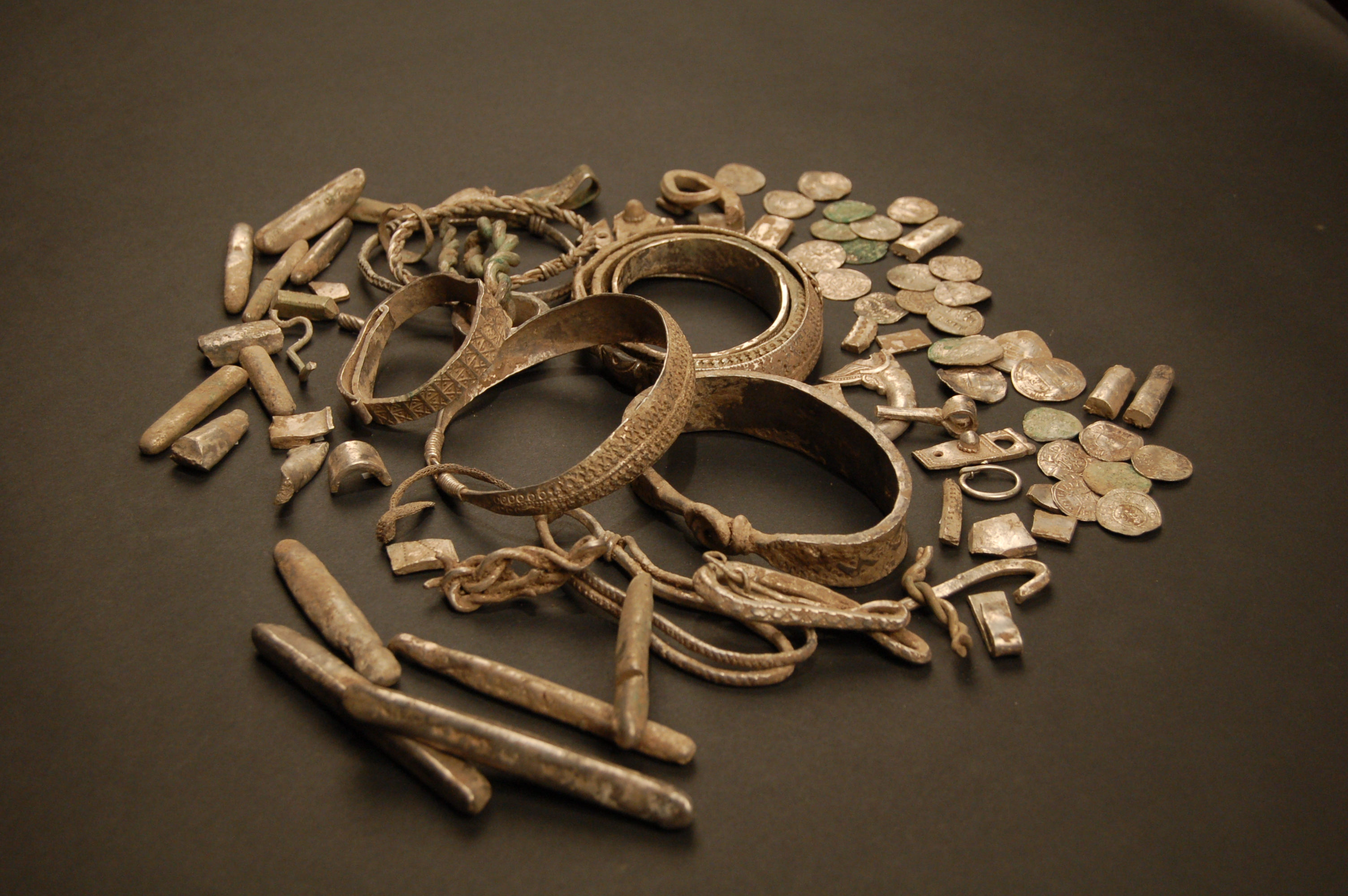 Silver coins, jewellery, ingots and hacksilver from a early 10th century Viking hoard discovered in Silverdale, Lancashire in September 2011.